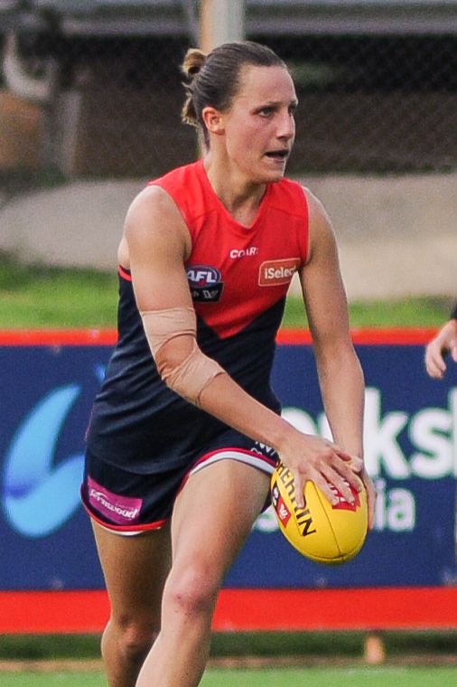 Karen Paxman during the AFL Women's round six match between Adelaide and Melbourne on 11 March 2017 at TIO Stadium in Darwin, Northern Territory